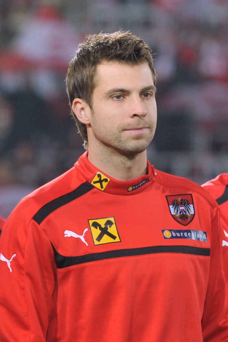 ÖFB freundschaftliches Länderspiel - Österreich vs Elfenbeinküste am 14. November 2012 The making of this work was supported by Wikimedia Austria. For other files made with the support of Wikimedia Austria, please see the category Supported by Wikimedia Österreich. Österreich Nr. 6: Andreas Ivanschitz